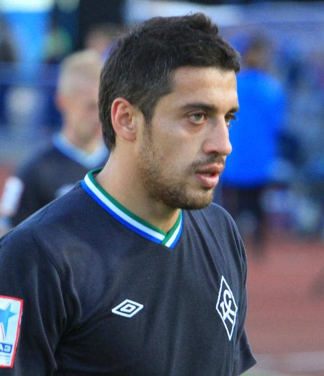 Aleksandr Amisulashvili playing for FC Krylia Sovetov Samara.